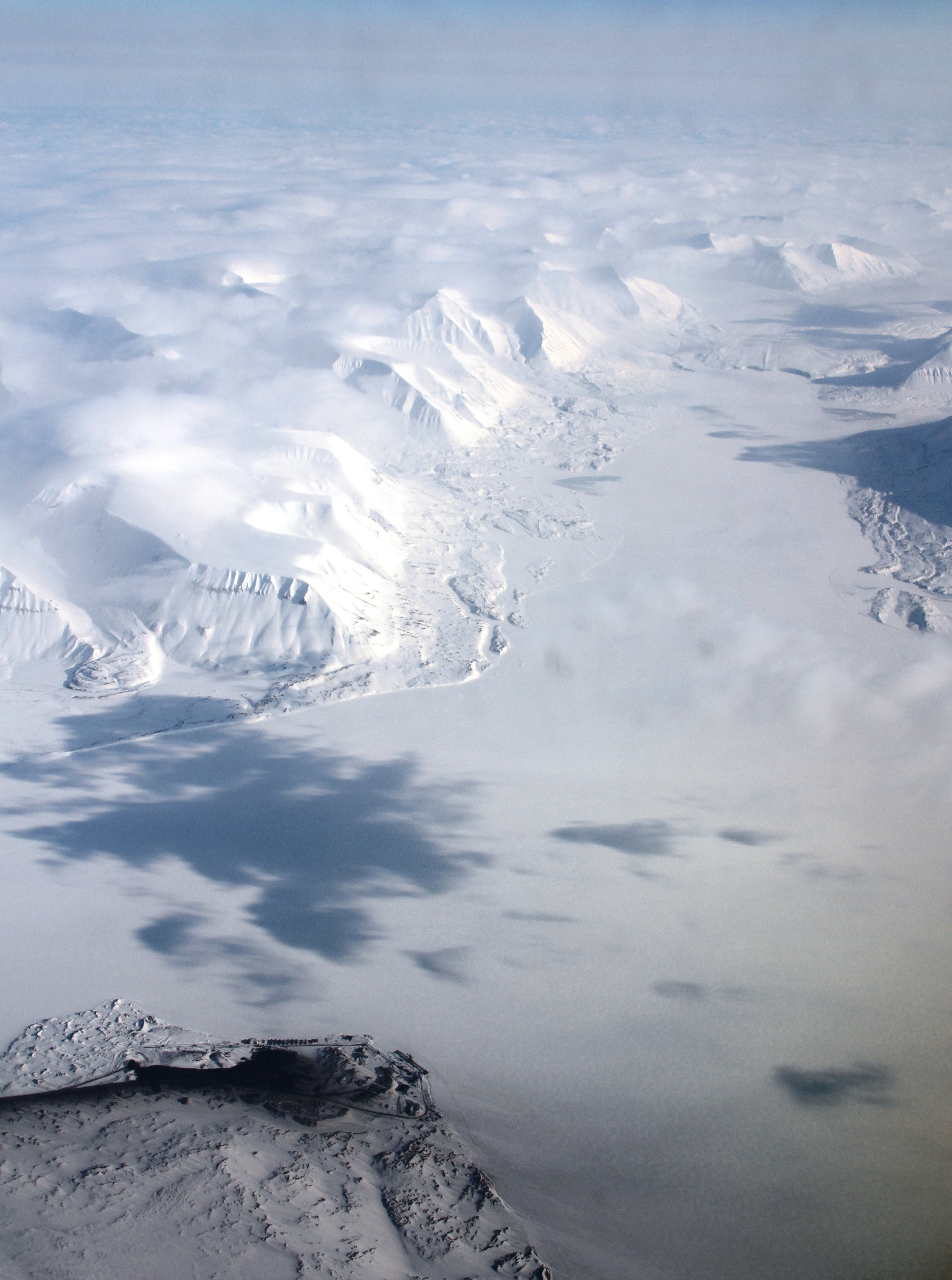 Aerial view of southern Heer Land close to the inner stretch of the Van Mijen Fjord, eastern Spitsbergen. View from the west towards the east.